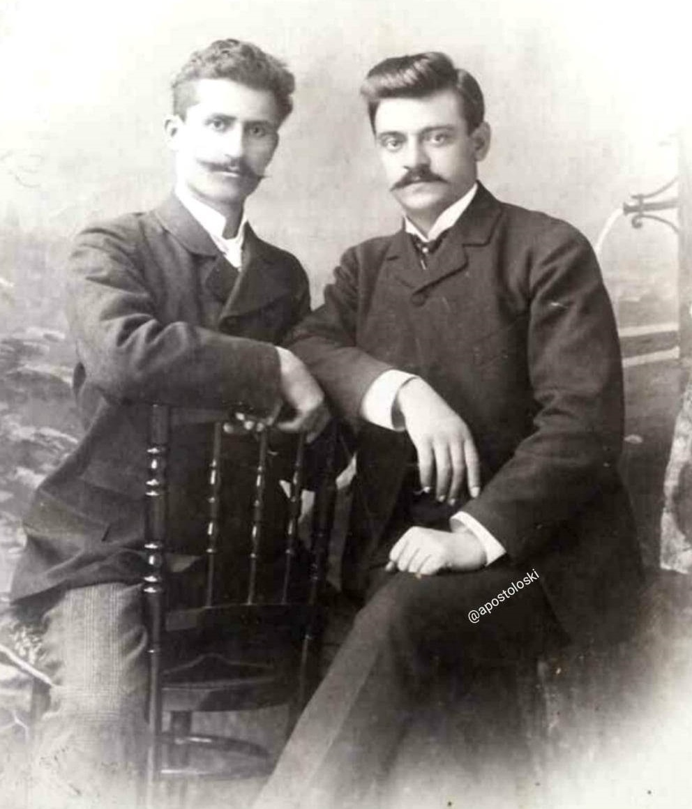 Picture of Vasil Chekalarov and Boris Sarafov